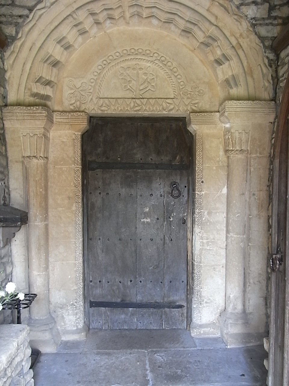 Norman doorway inside the south porch of St Anne's parish church, Siston, Gloucestershire